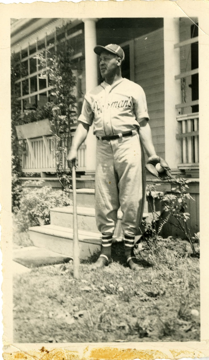 Photograph of Earl "Flat" Chase, Chatham, ON c 1934